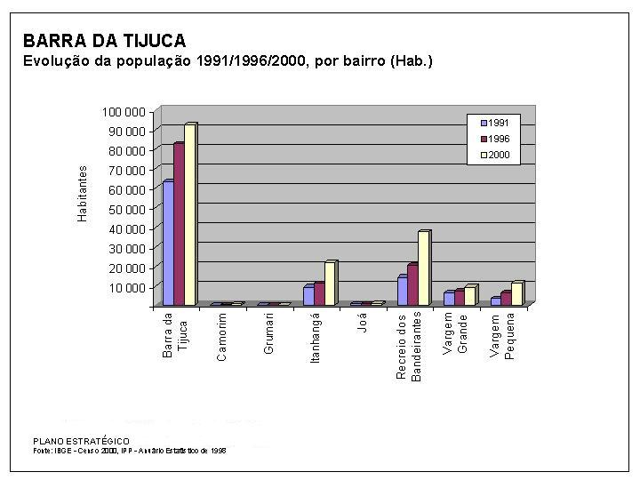 Populacoes dos bairros da regiao da Barra da Tijuca.